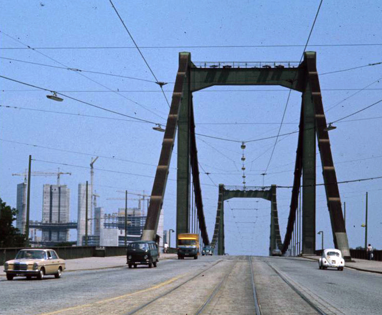 Reichsbrücke in Vienna, built in 1936, destroyed in 1976; background left: construction of the Vienna International Centre